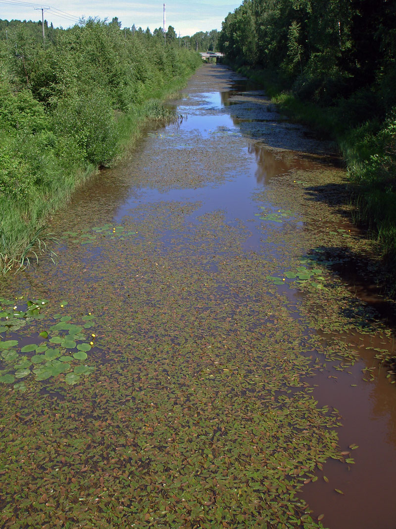 Canal which led from old Vasa town to the sea and which was abandoned when Vasa after the fire 1852 was moved to its current location.